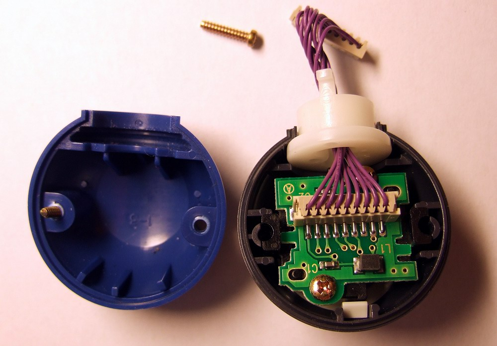 Game Boy Cam - Cam (var. 1)